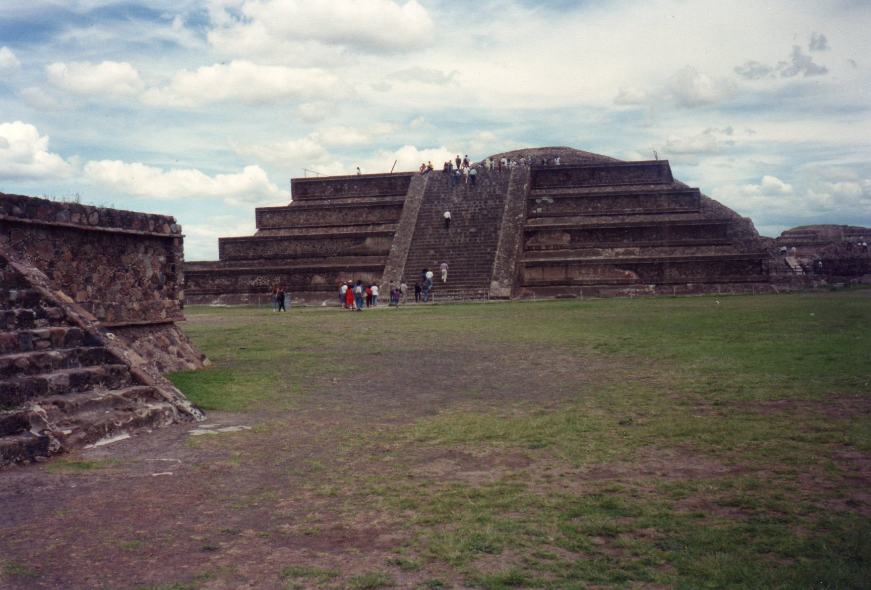 Teotihuacan, The Pyramid of the Moon